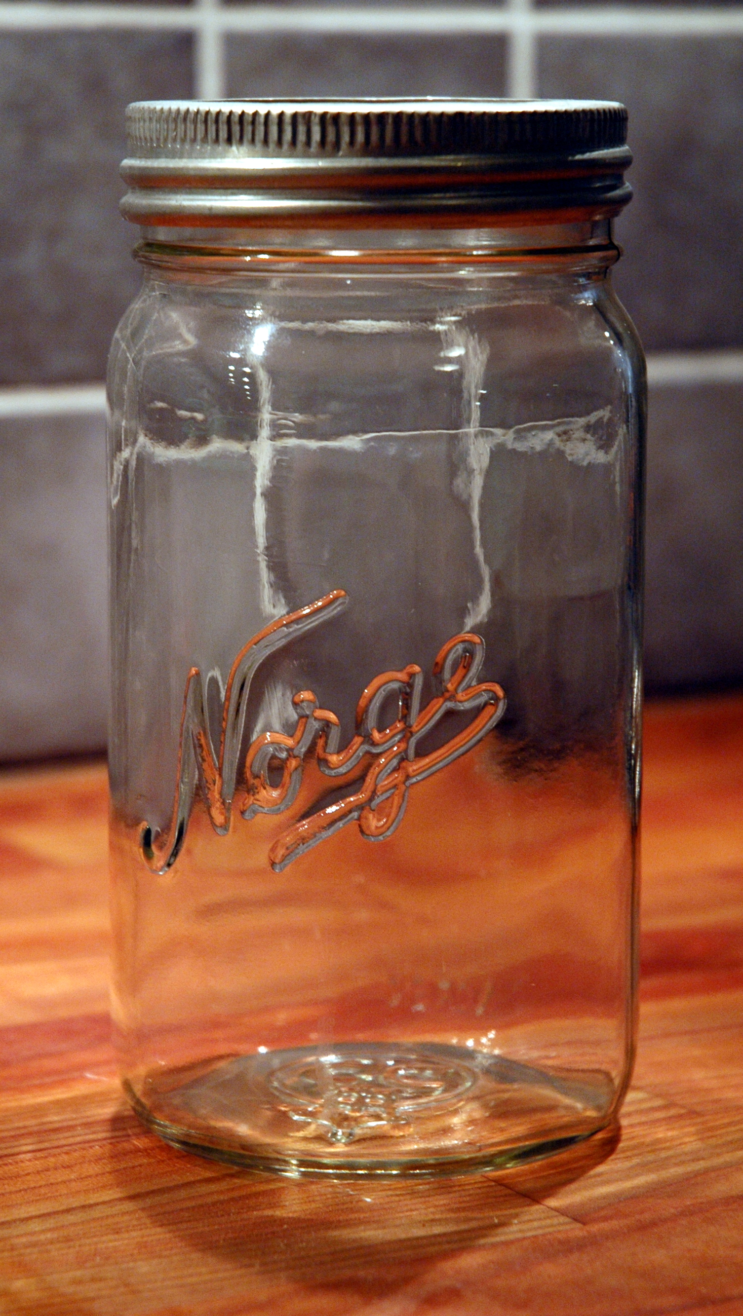 Norwegian preserving jar, type "Norgesglass"